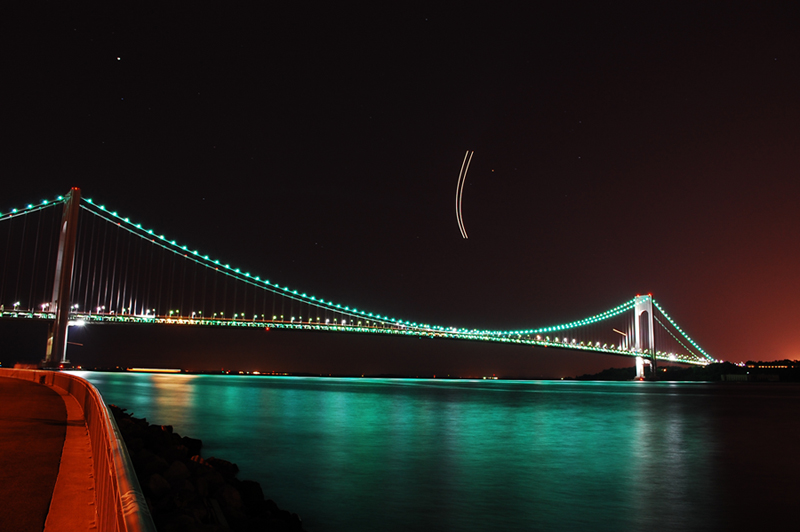 Verrazano-Narrows Bridge in the evening, shot from Shore Road Park in Brooklyn. White streaks are the lights of a commercial jet on final approach.